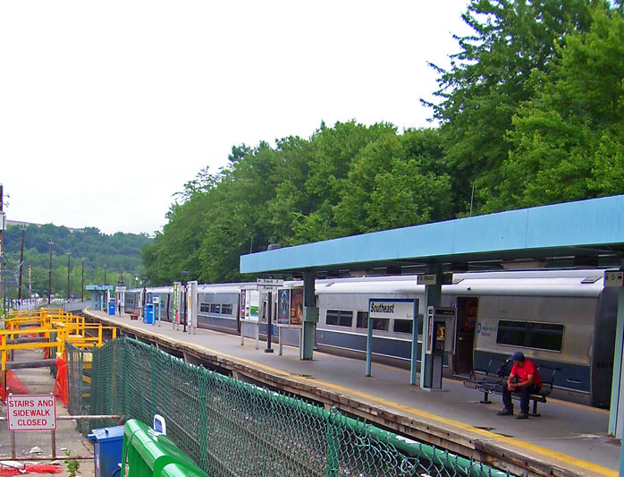 Photographed by Daniel Case 2006-07-05